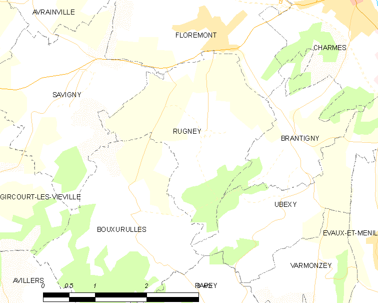 Map of French municipality Rugney